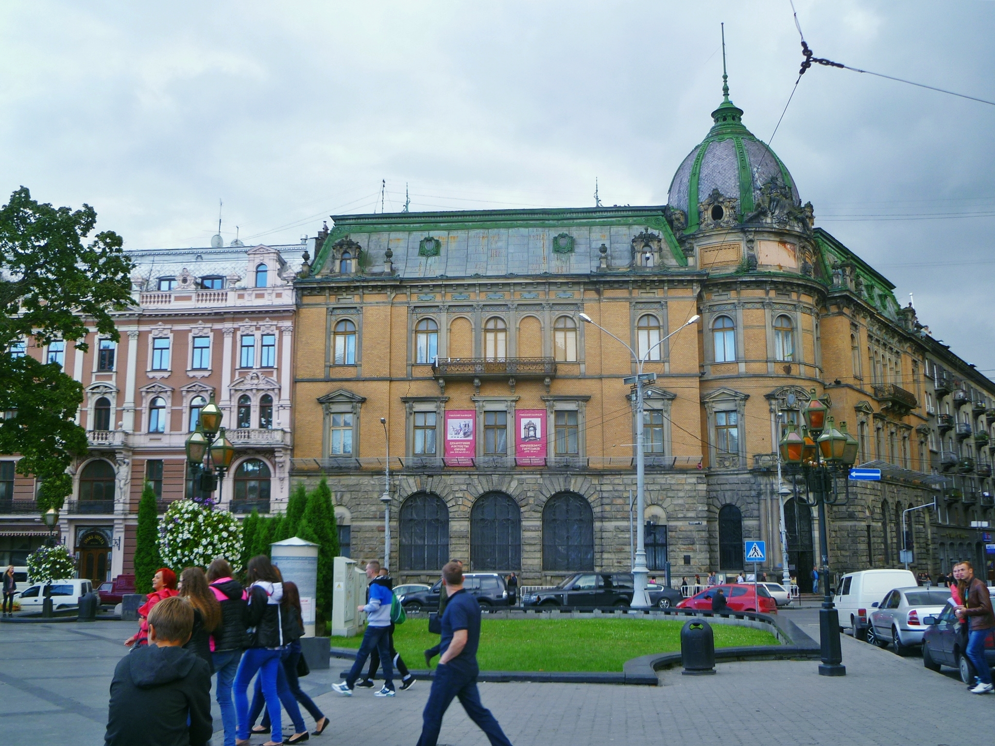 Architecture on Svobody Avenue in Lviv